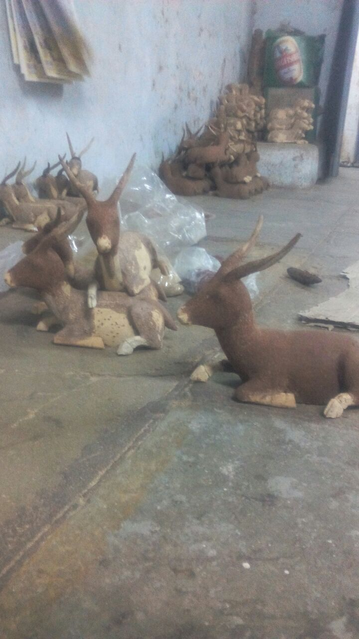 Making Nirmal Toys by craftsmen with raw material